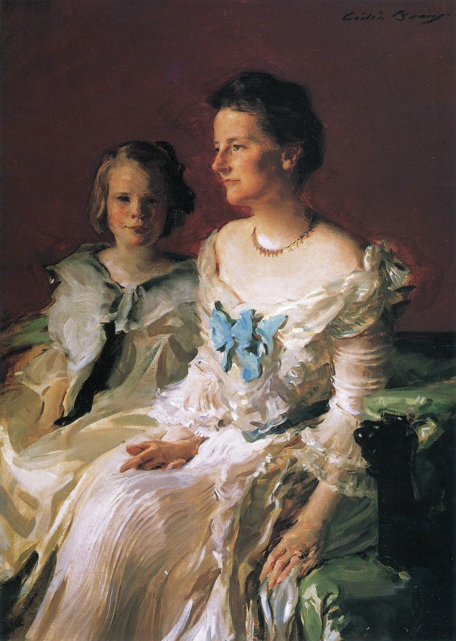 Mrs. Theodore Roosevelt and daughter Ethel oil on canvas 113 x 80 cm signed t.r. 1902